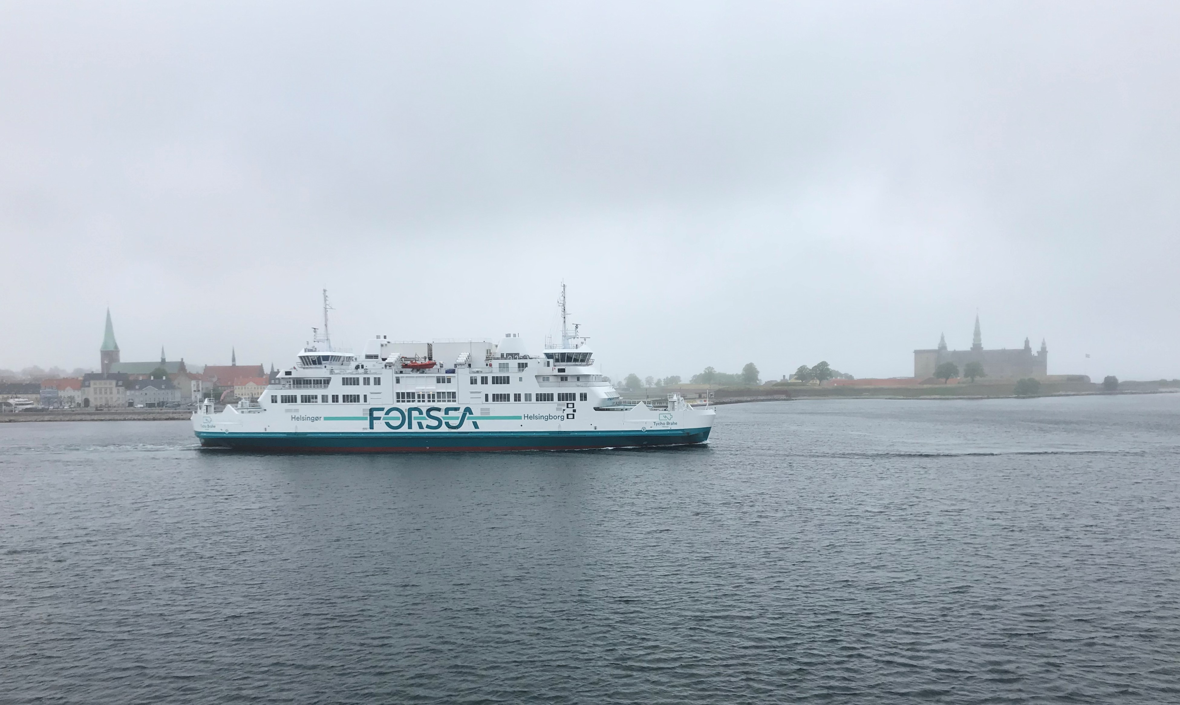 M/S Tycho Brahe leaving Helsingor harbour, on her way to Helsingborg, May 22, 2019.